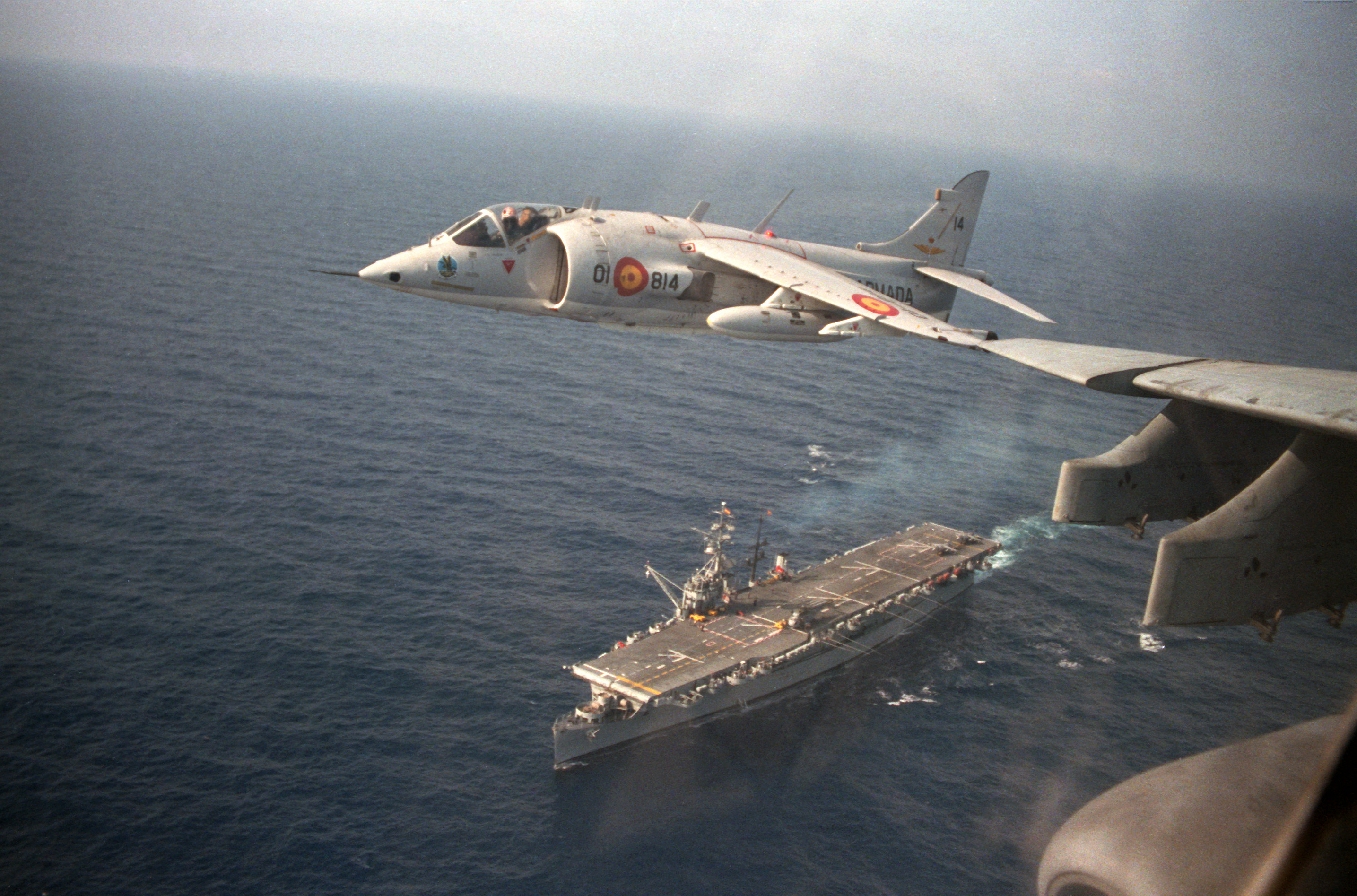 An air-to-air front view of a Spanish AV-8S Matador aircraft in flight over the Spanish aircraft carrier DEDALO (R01), below.